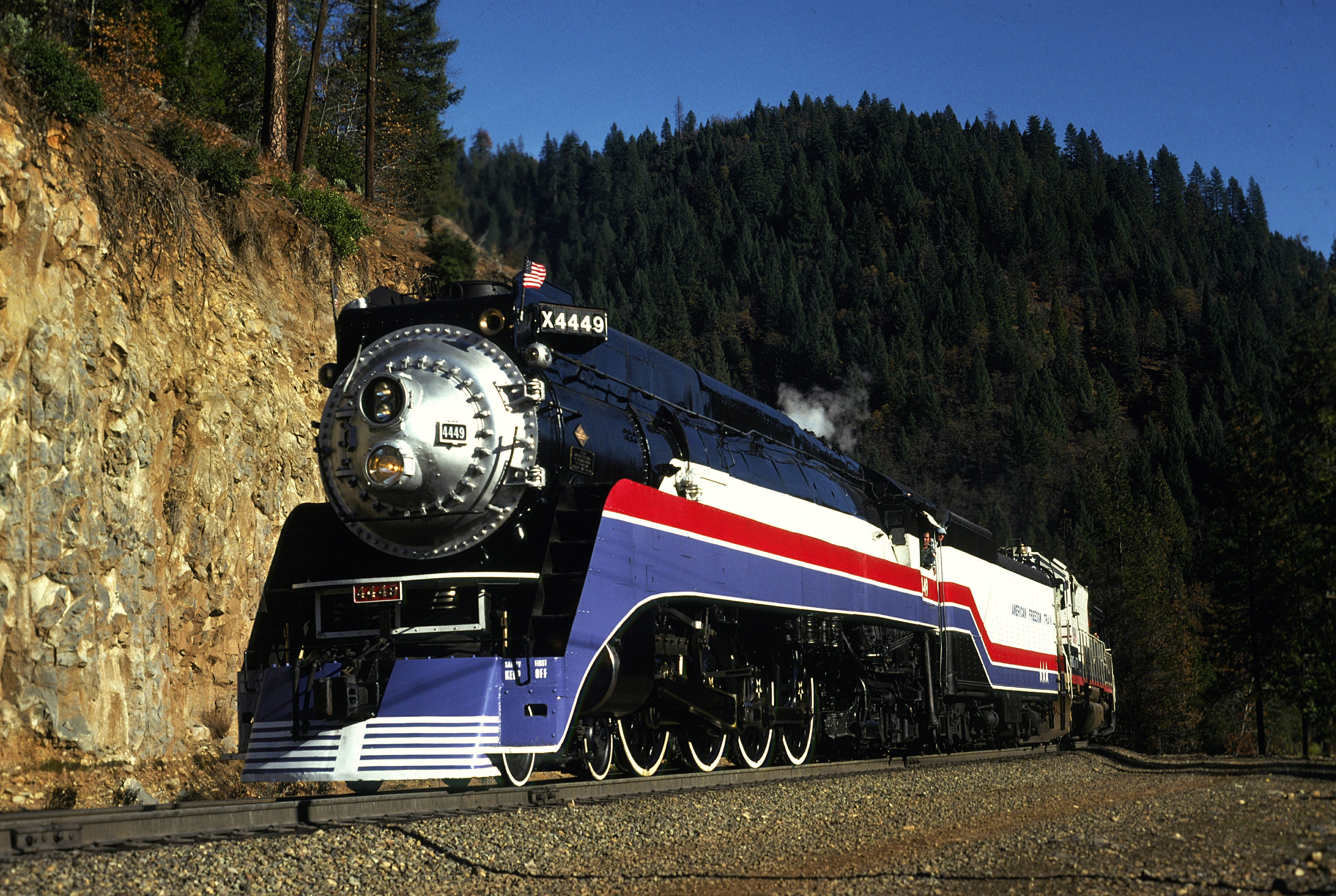 AFT 4449 Soda Cr November 1975xc